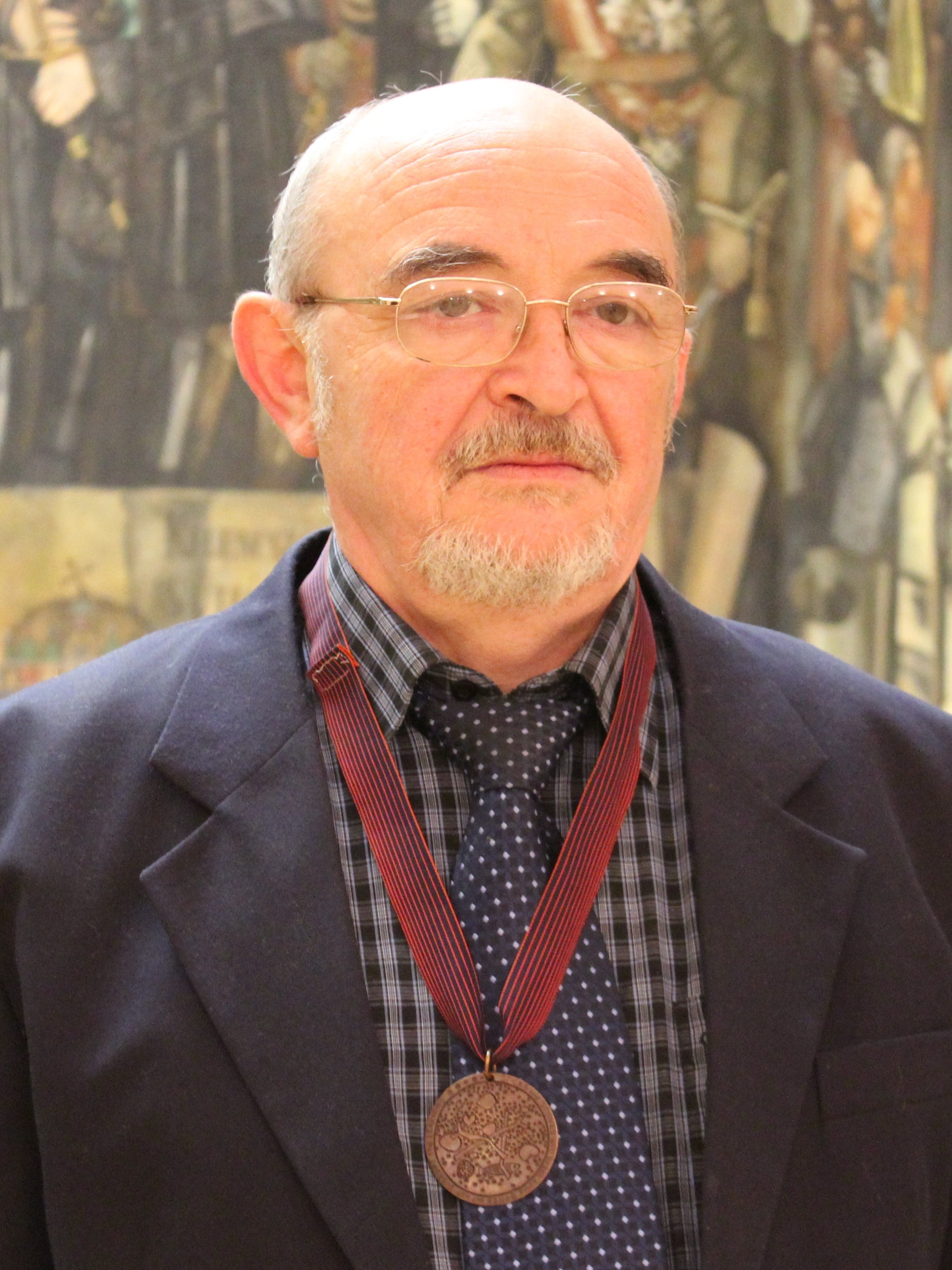 Károly Piláth, hungarian physics teacher, with award Vándorplakett.